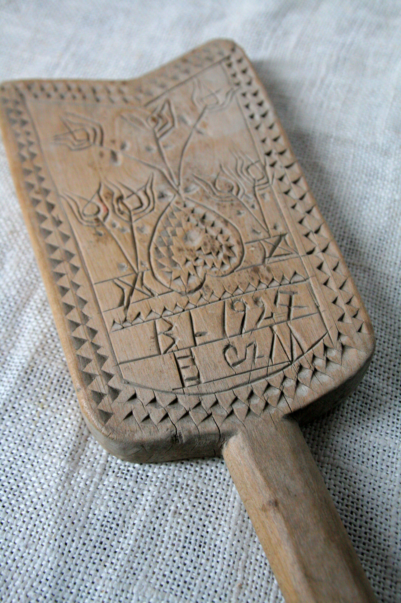 Carved wooden tool for washing textiles. Presents for girls.